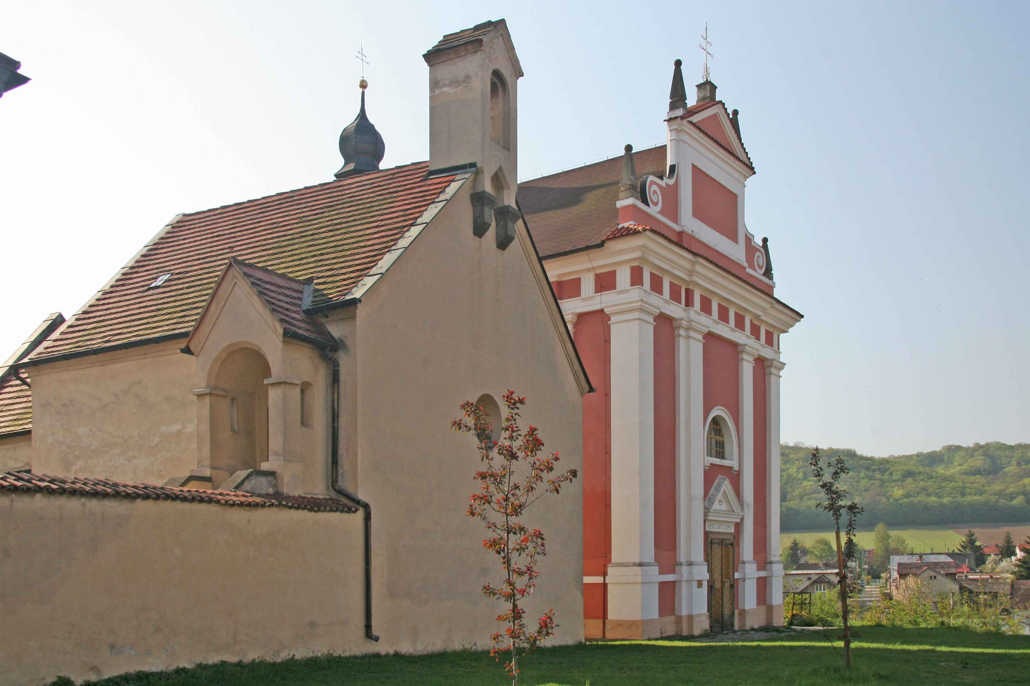 Churches of St Catherine and St Ludmilla in Tetín, Beroun District, Czech Republic